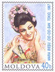 Stamp of Moldova